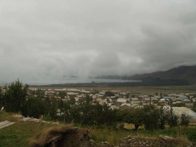 Lchashen, Gegharkunik Province, Armenia